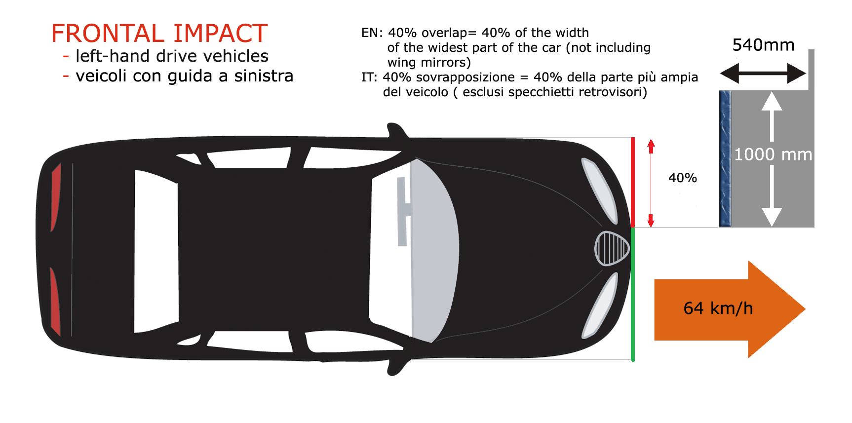 Crash Test EuroNCAP: Frontal Impact (left-hand drive veicles version)